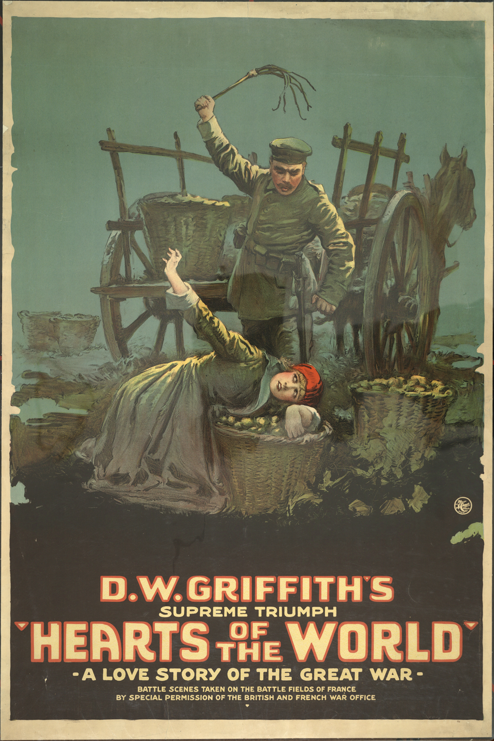 Poster for Hearts of the World, a film directed by D.W. Griffith. Chromolithograph.